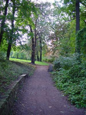 Reichardt's garden